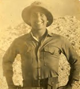 Sgt. Fernando Bernacett, WW II, guarding Atomic bomb pictured credited to USMC